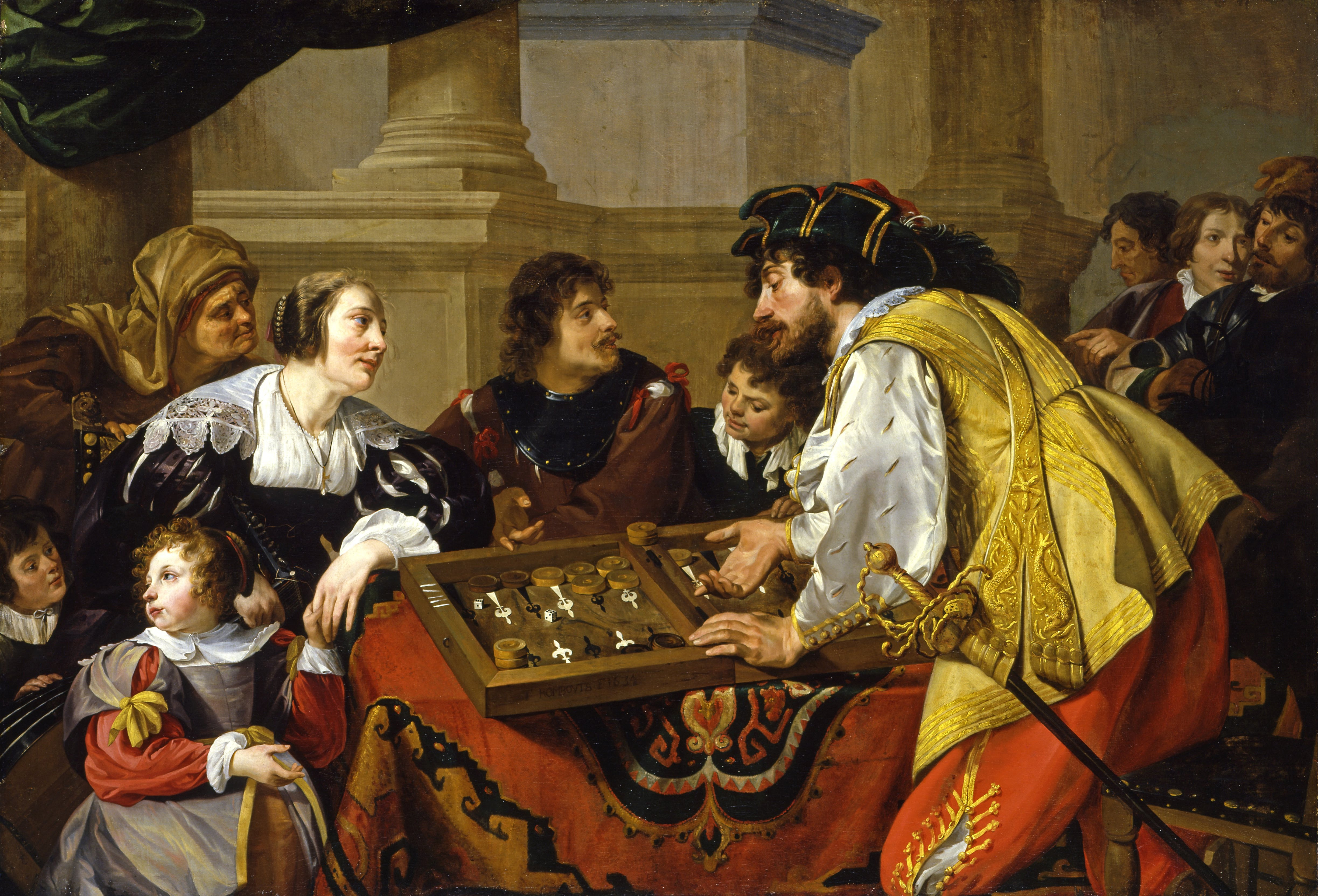 The Backgammon Players. 1634. Theodoor Rombouts. Oil on canvas. 63 1/4 x 92 7/16 in. (160.7 x 234.8 cm). North Carolina Museum of Art via Google Cultural Institute